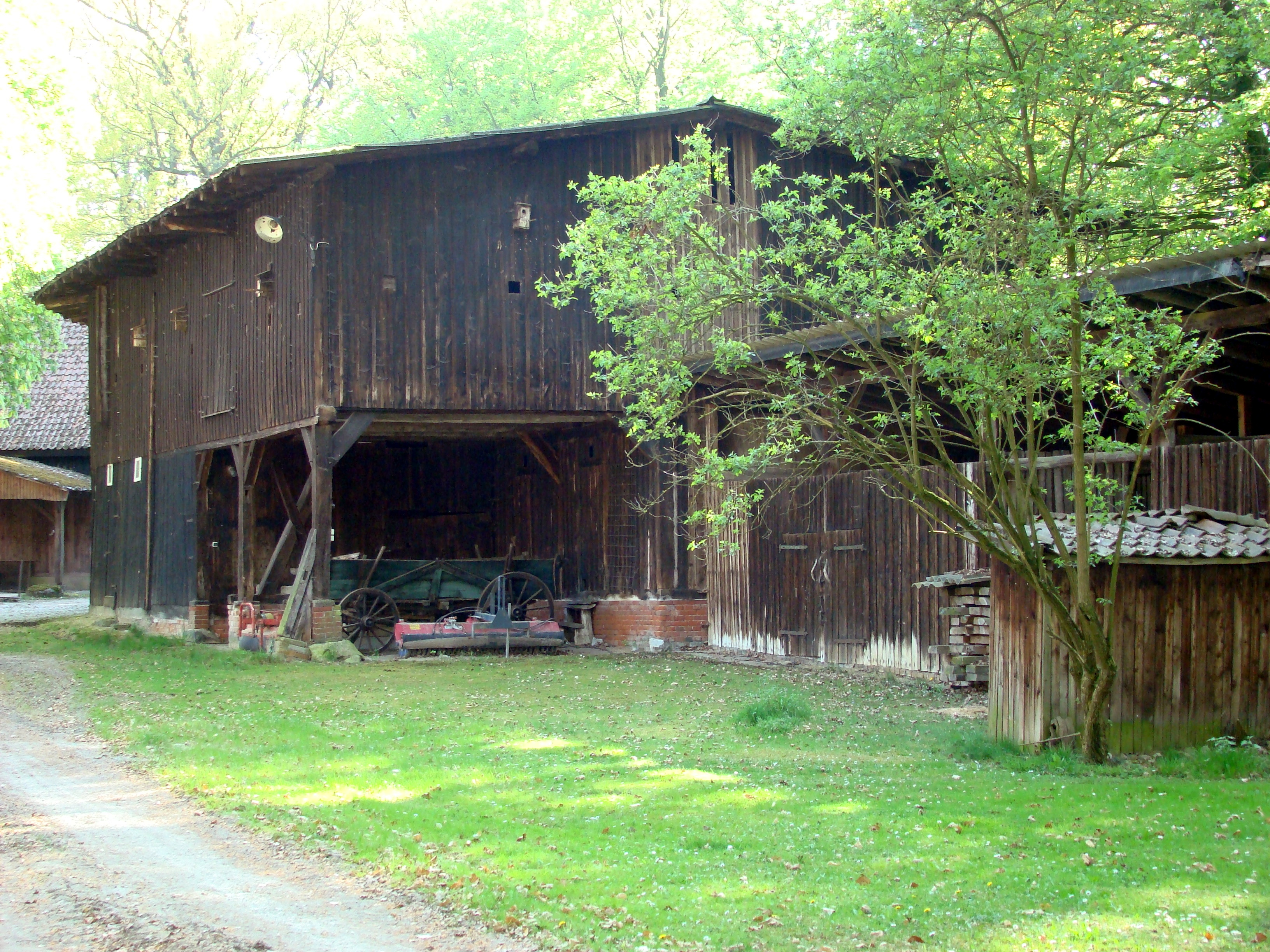 Old farm shed for agricultural implements, Dohnsen, Lower Saxony, Germany.